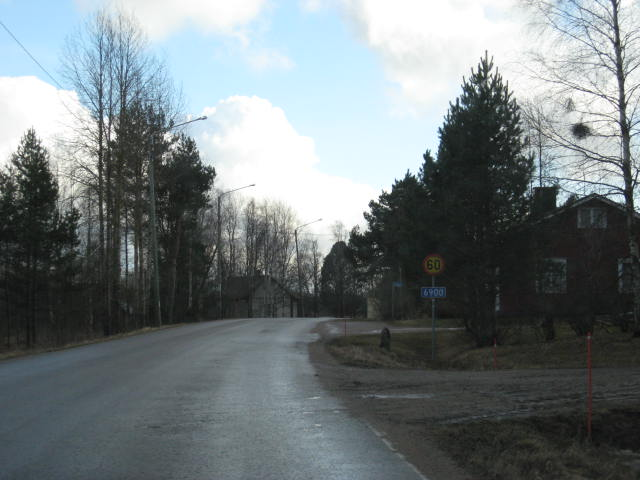 Connecting road 6900 (Kurikantie) in Harjankylä village, Kauhajoki, Finland.